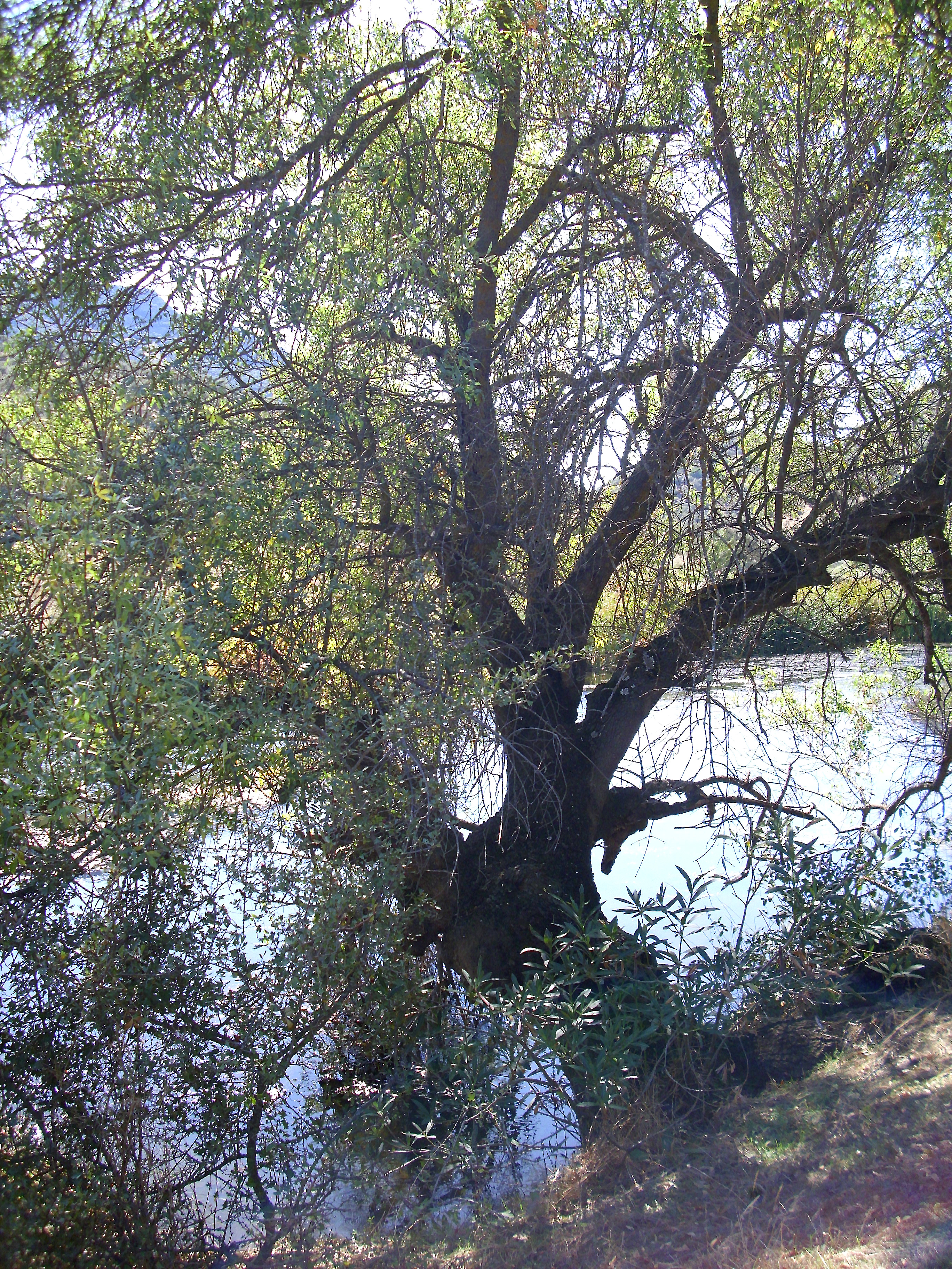 Salix salviifolia in Fresnedas river, Valle de Alcudia and Campo de Calatrava